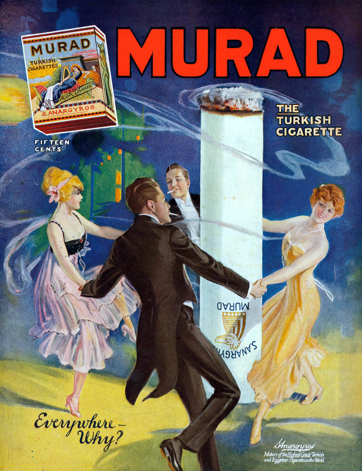 Advertisment of Murad cigarettes in the US.